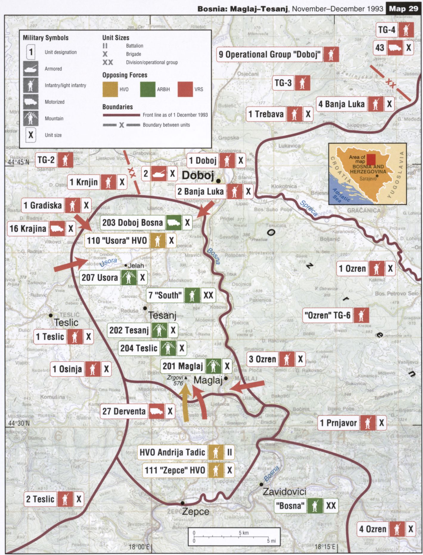 Maglaj-Tesanj, November-December 1993